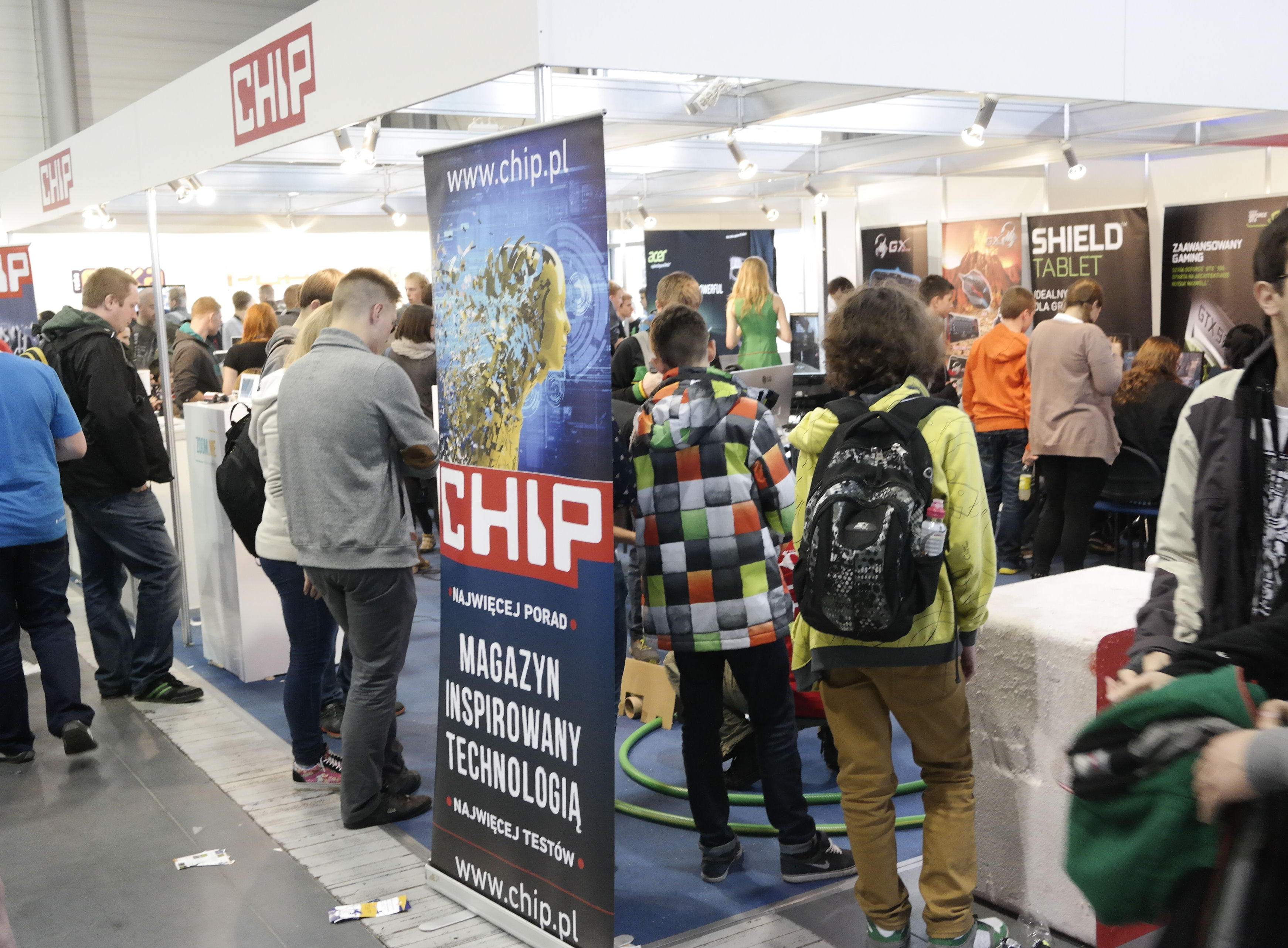 Poznań Game Arena, Poland